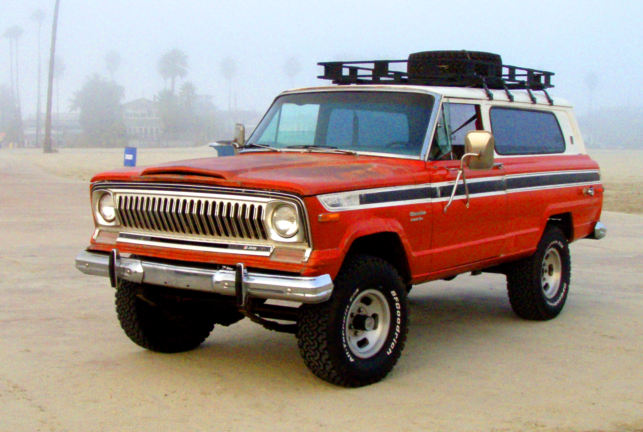 A Trans-Am Red 1974 Jeep Cherokee S posing at the beach.